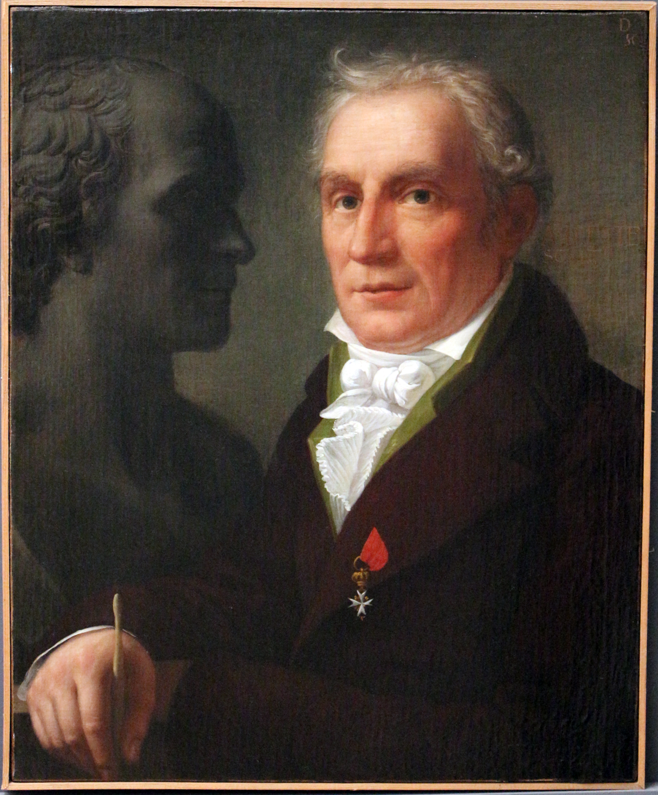 Accademia di San Luca - Gallery